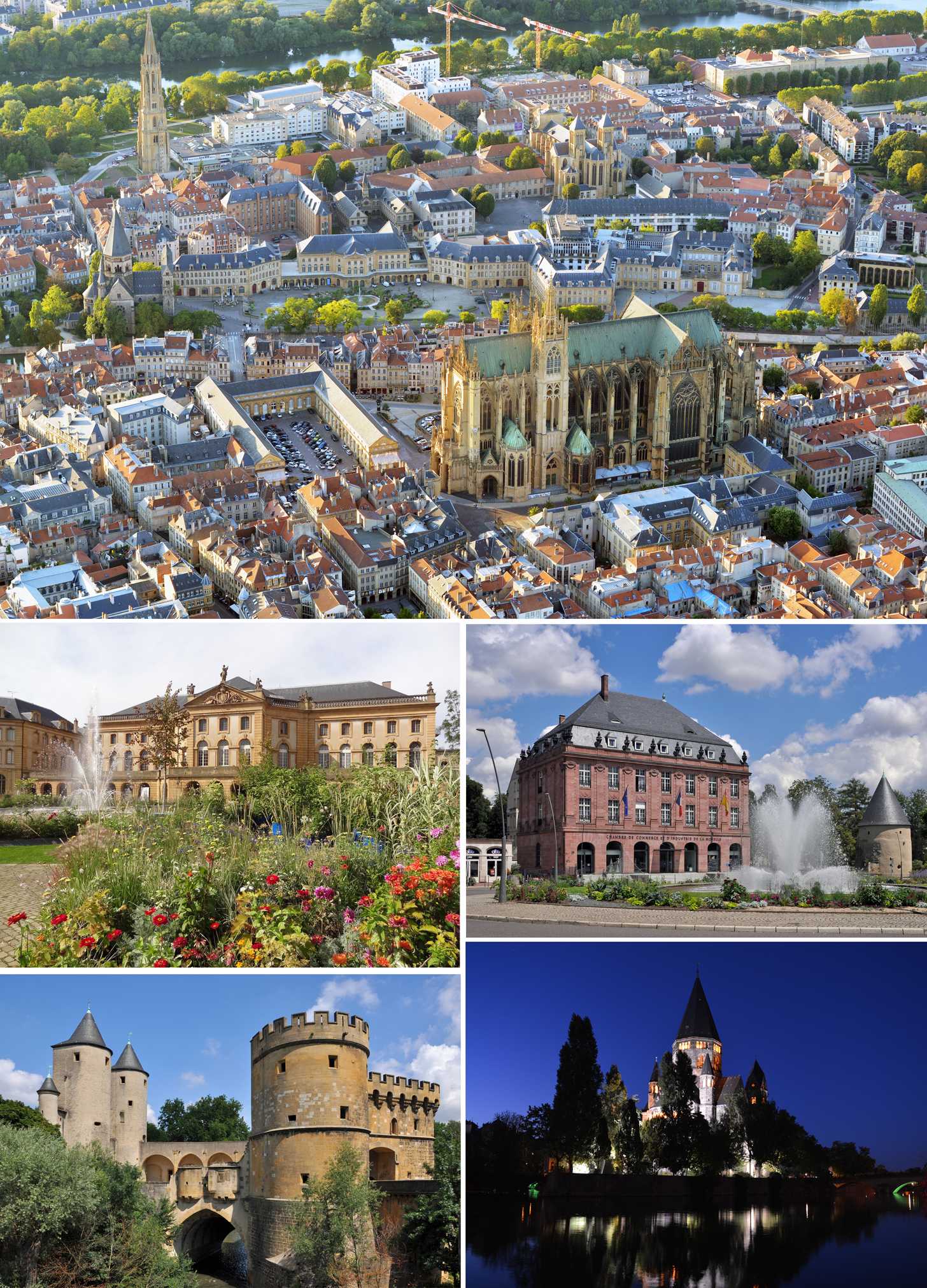 Collage Metz